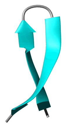 cartoon representation of the beta hairpin of the syrian hamster prion protein